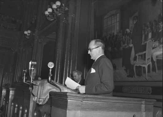 Halvard Lange (1902–1970), Norwegian diplomat and politician (Labour Party). Minister of Foreign Affairs 1946–1963 and 1963–1965. Photo by Leif Ørnelund in the collection of Oslo Museum via DigitaltMuseum.